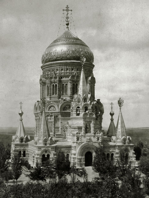 Cathedral of Christ the Saviour in Borki, near Kharkov, Russian Empire. Destroyed during the rule of Bolsheviks.